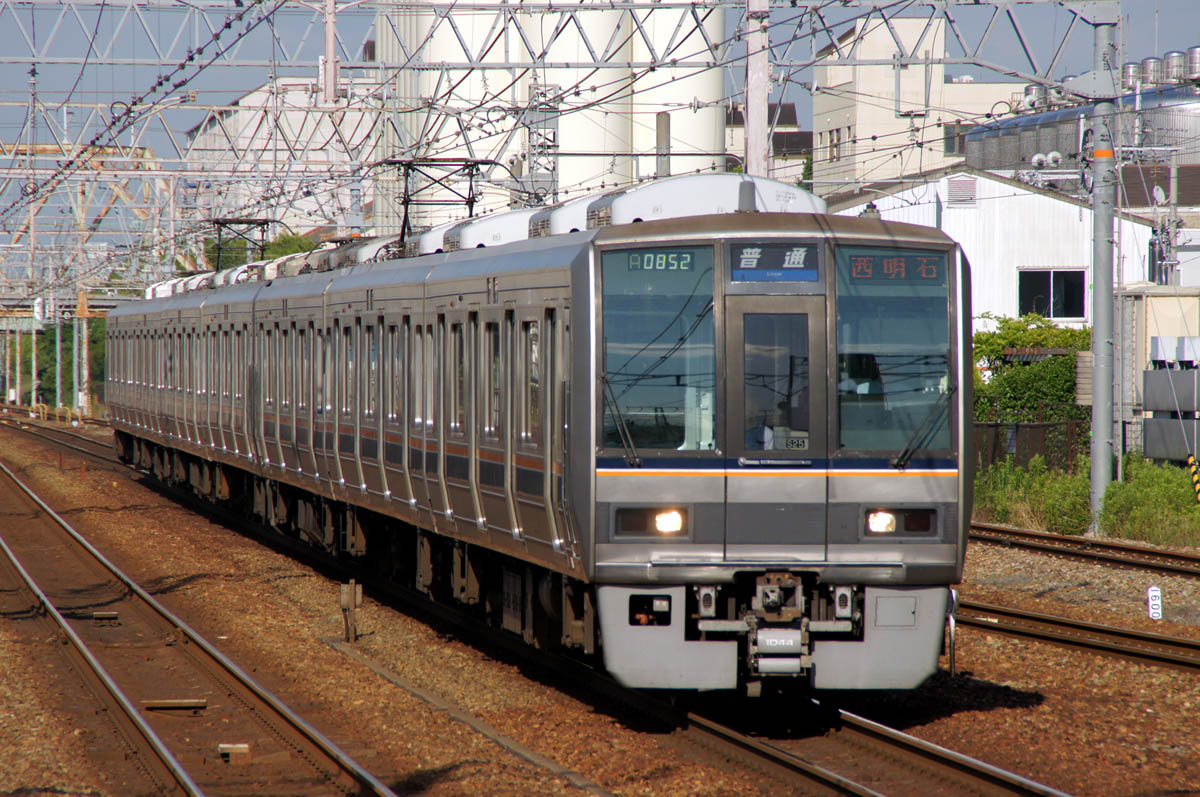 JR West 207 series EMU on Tokaido Main Line, shot from Nishinomiya Station